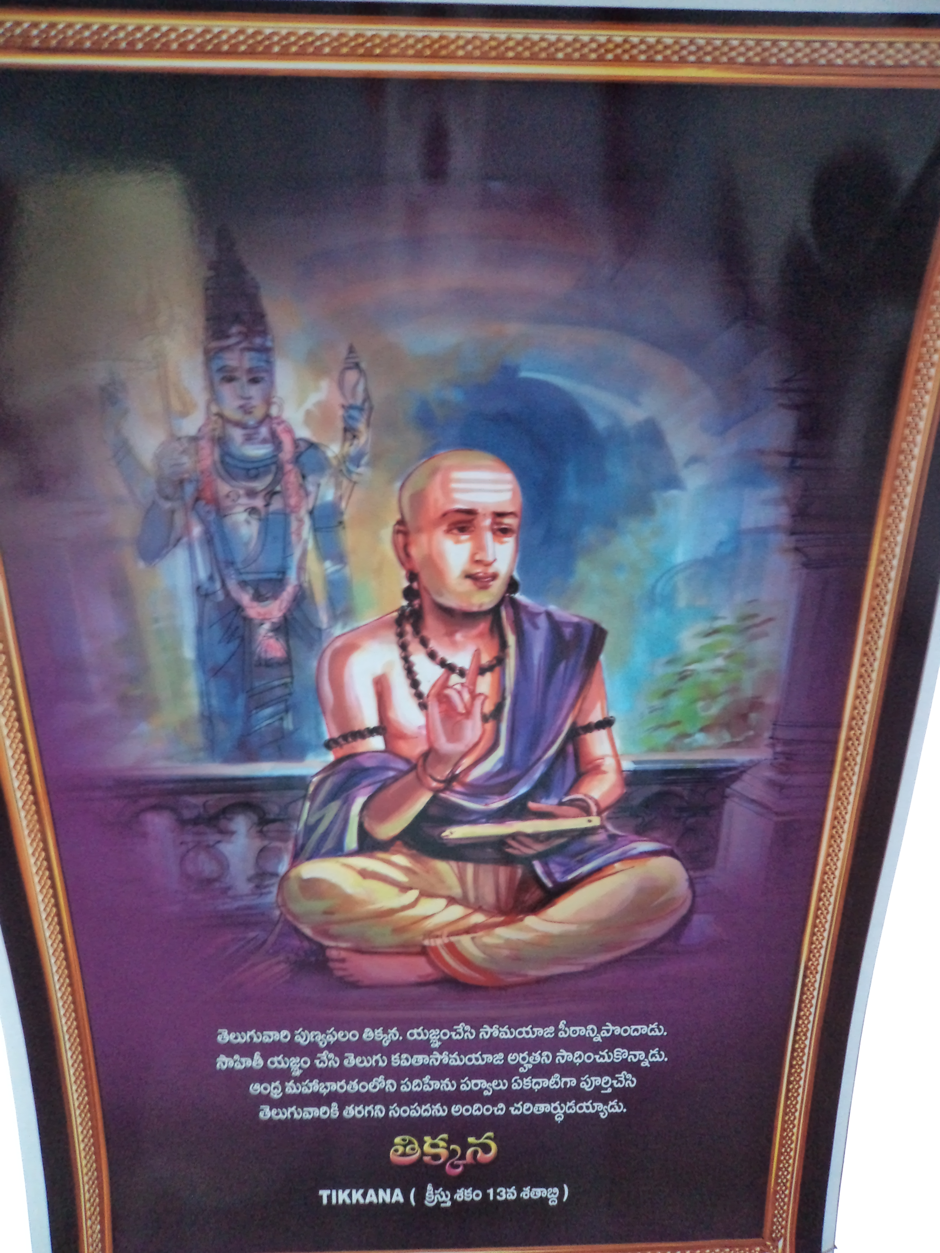 Portrait of Tikkana